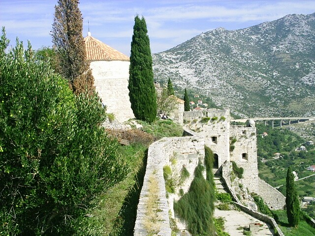 Klis Fortress near the town of Split, Croatia